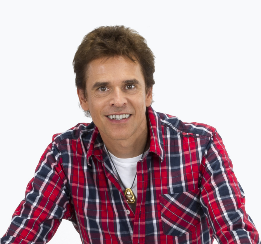 Thomas Conrad Brezina is an Austrian writer, producer and television presenter.